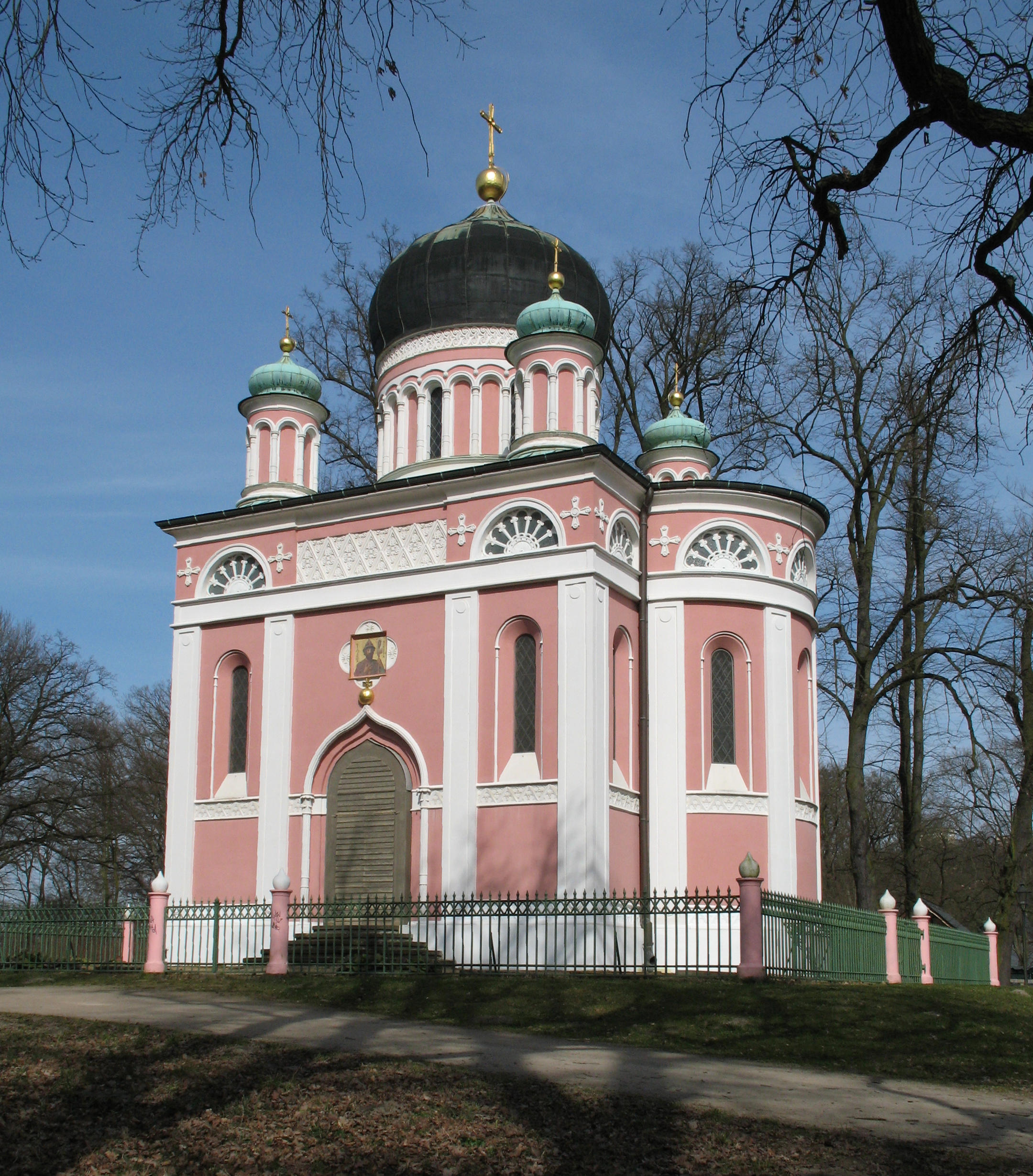 Alexander Nevsky Memorial Church in Potsdam in Brandenburg, Germany